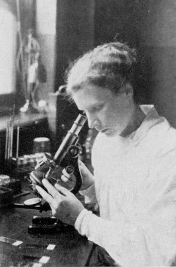 Finnish veterinarian, 1888–1964, the first woman in Europe to achieve doctorate in veterinary medicine.